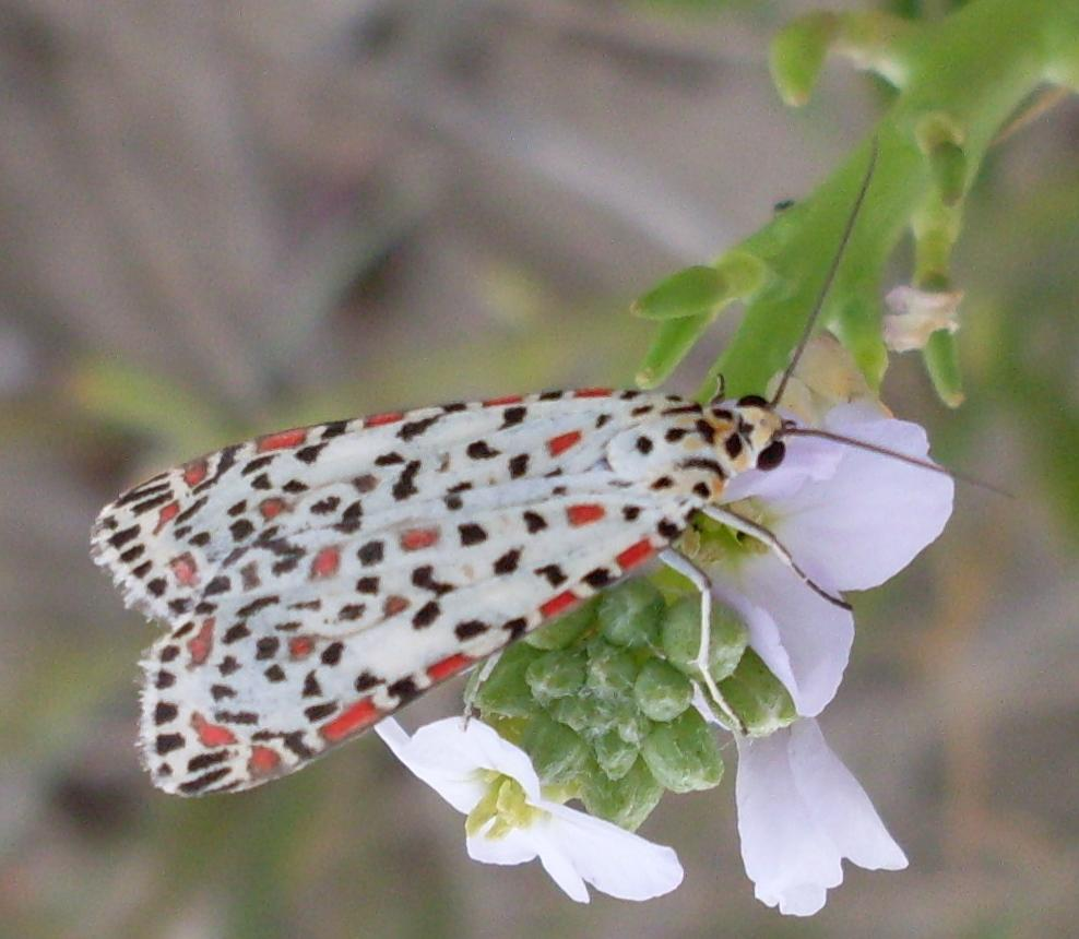 These heliotrope moths Utetheisa pulchelloides were flying in across the beach from the Pacific Ocean in their hundreds. They would cross the surf and head up the beach and land on the flowers of a succulent. Who knows where they have come from? Did they head offshore last night, and in the light of day head landward? Had they flown from New Zealand? Had they been for a jolly with their mates up the coast? Gerroa NSW Australia, February 2011.